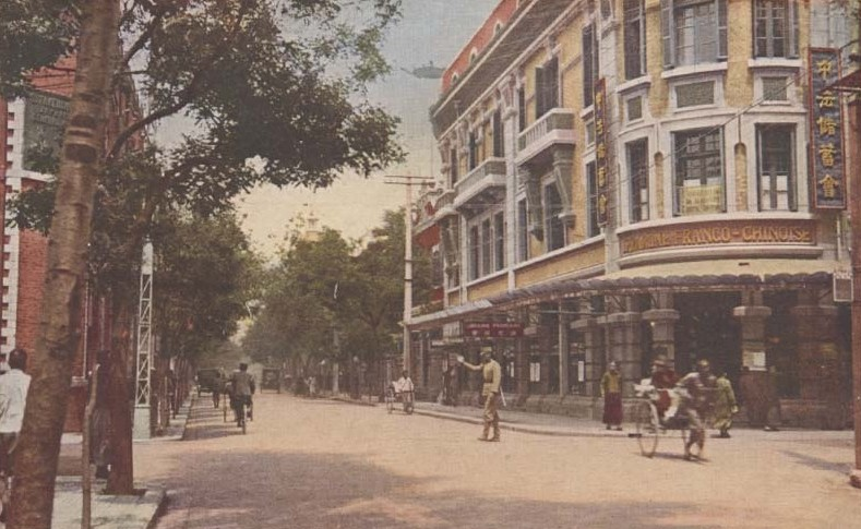 Rue de France in the French concession, Tientsin, early 1920s.